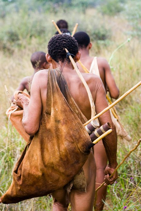 This is an image of "African people at work" from Namibia